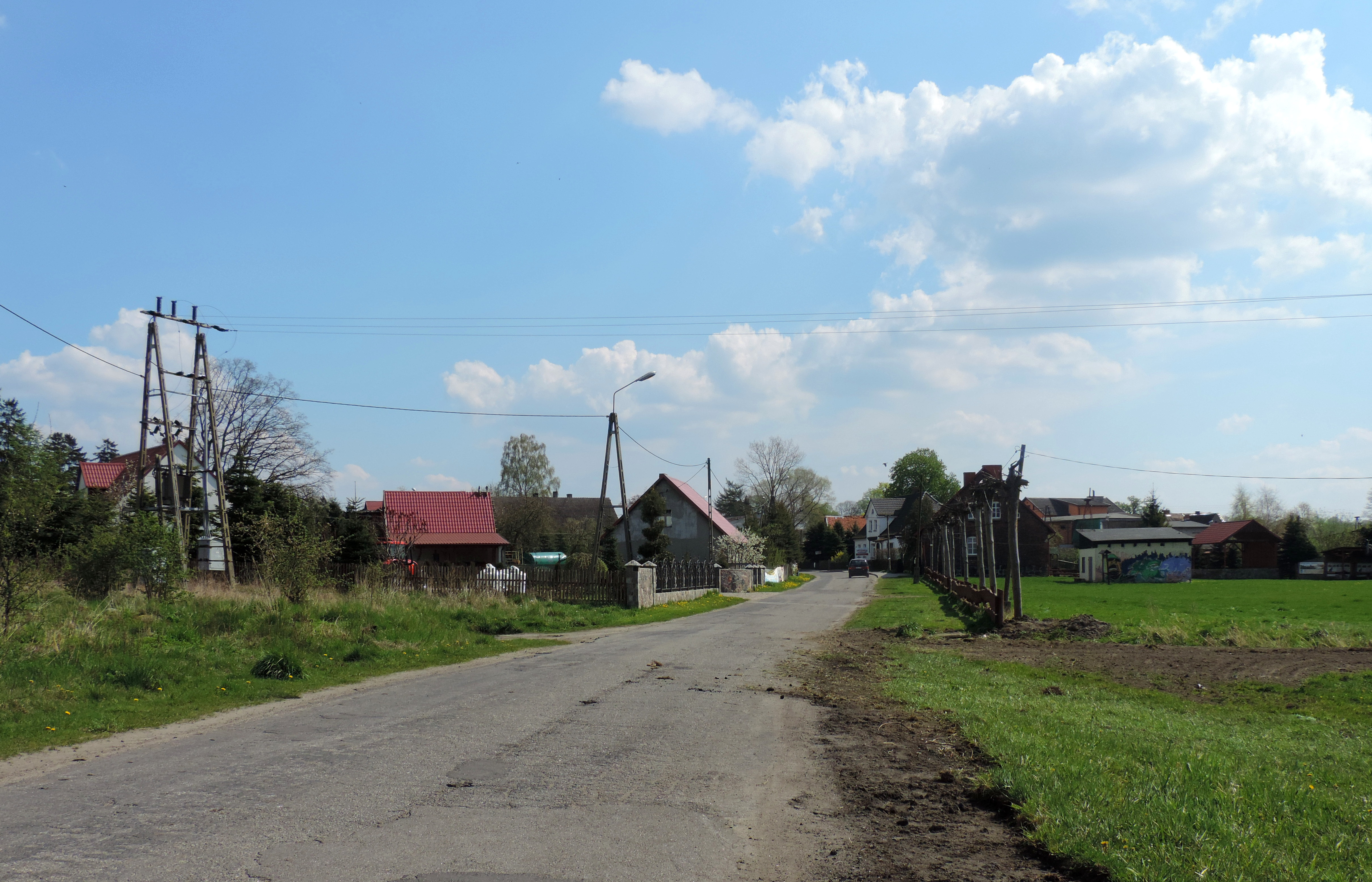 Wilkowo Nowowiejskie in Nowa Wieś Lęborska commune (N Poland)